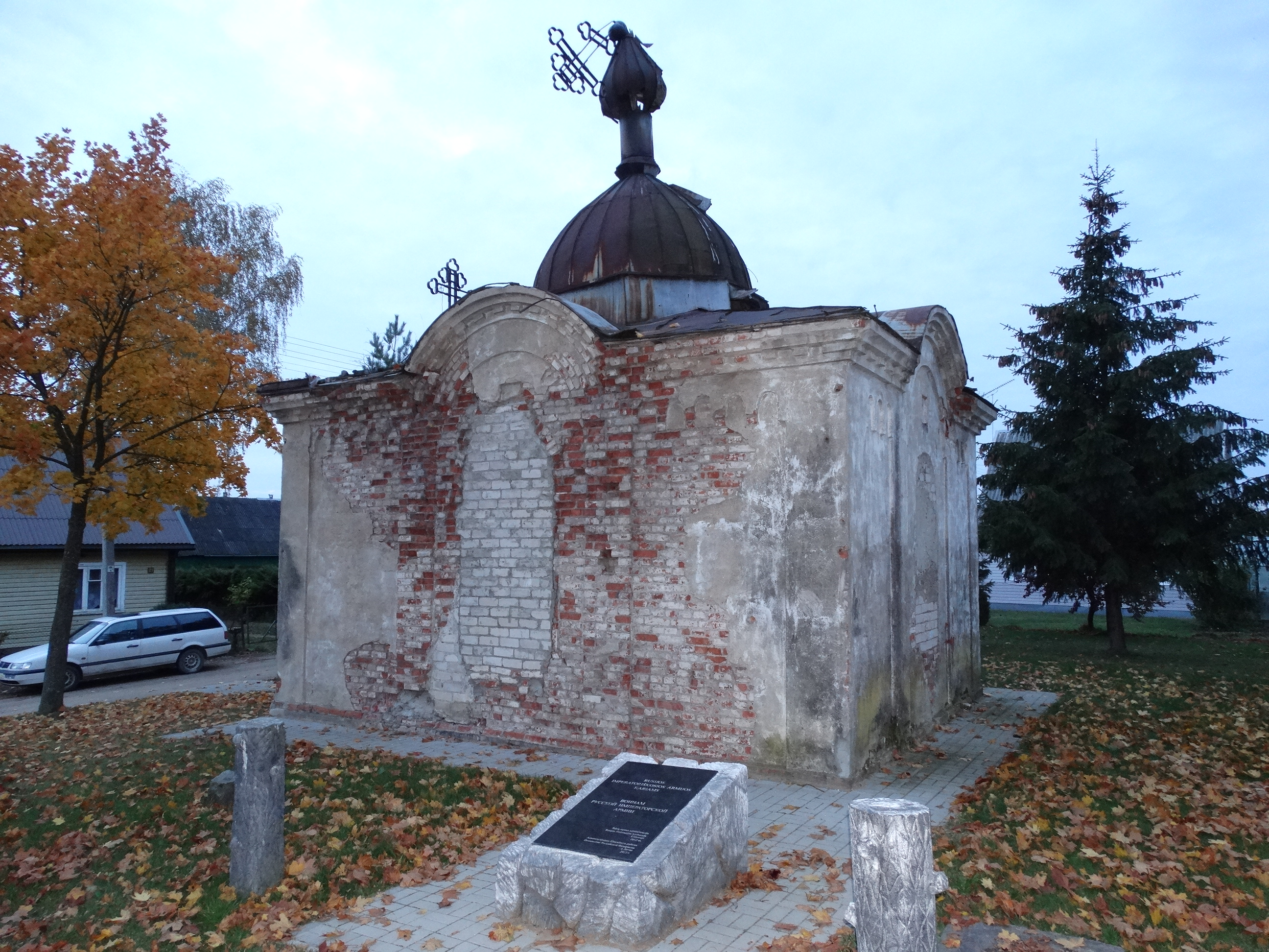 Orthodox сhapel in cemetery, Kudirkos Naumiestis, Lithuania